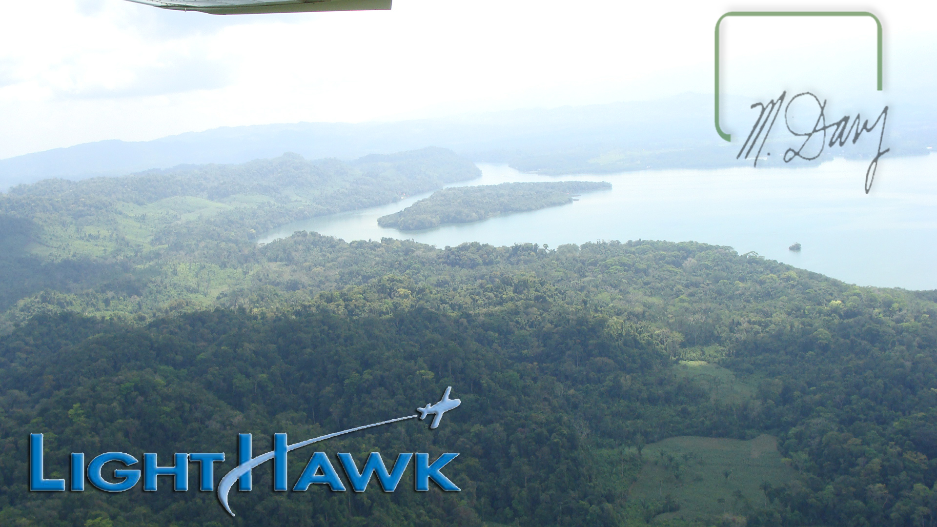 PUNTA MANABIQUE APRIL 2011 2ND POINT